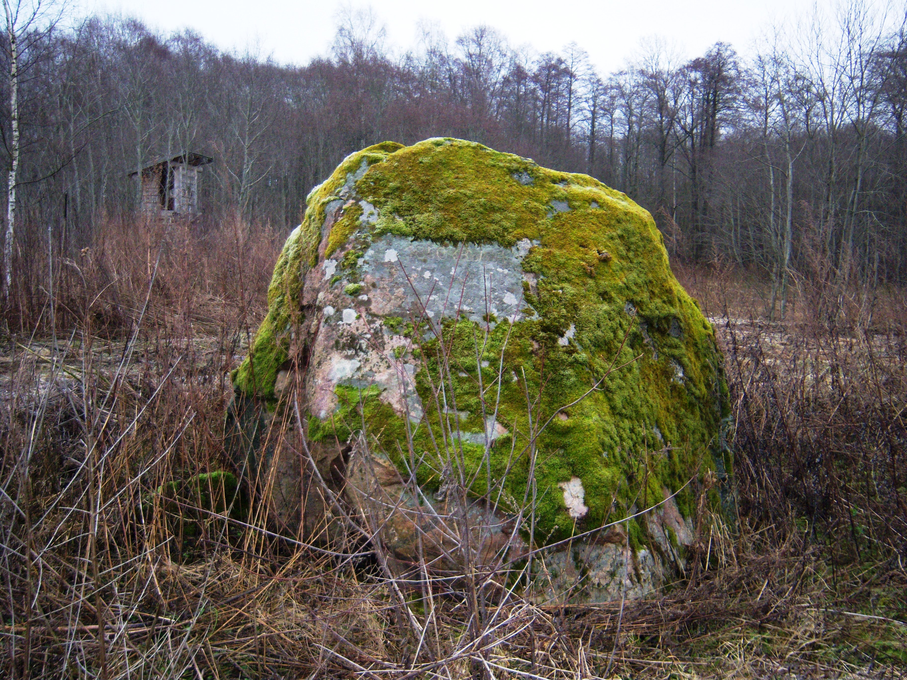 Pašimšė Stone with inscription, Kelmė District, Lithuania